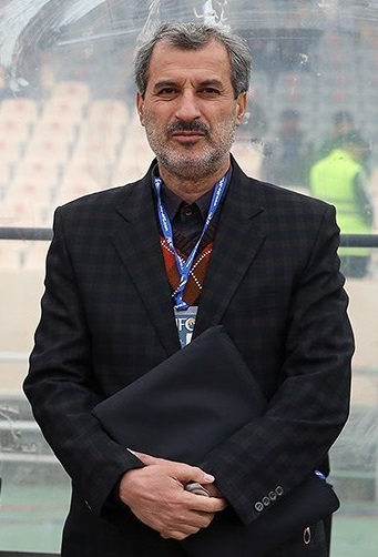 Mohammad Mayeli Kohan